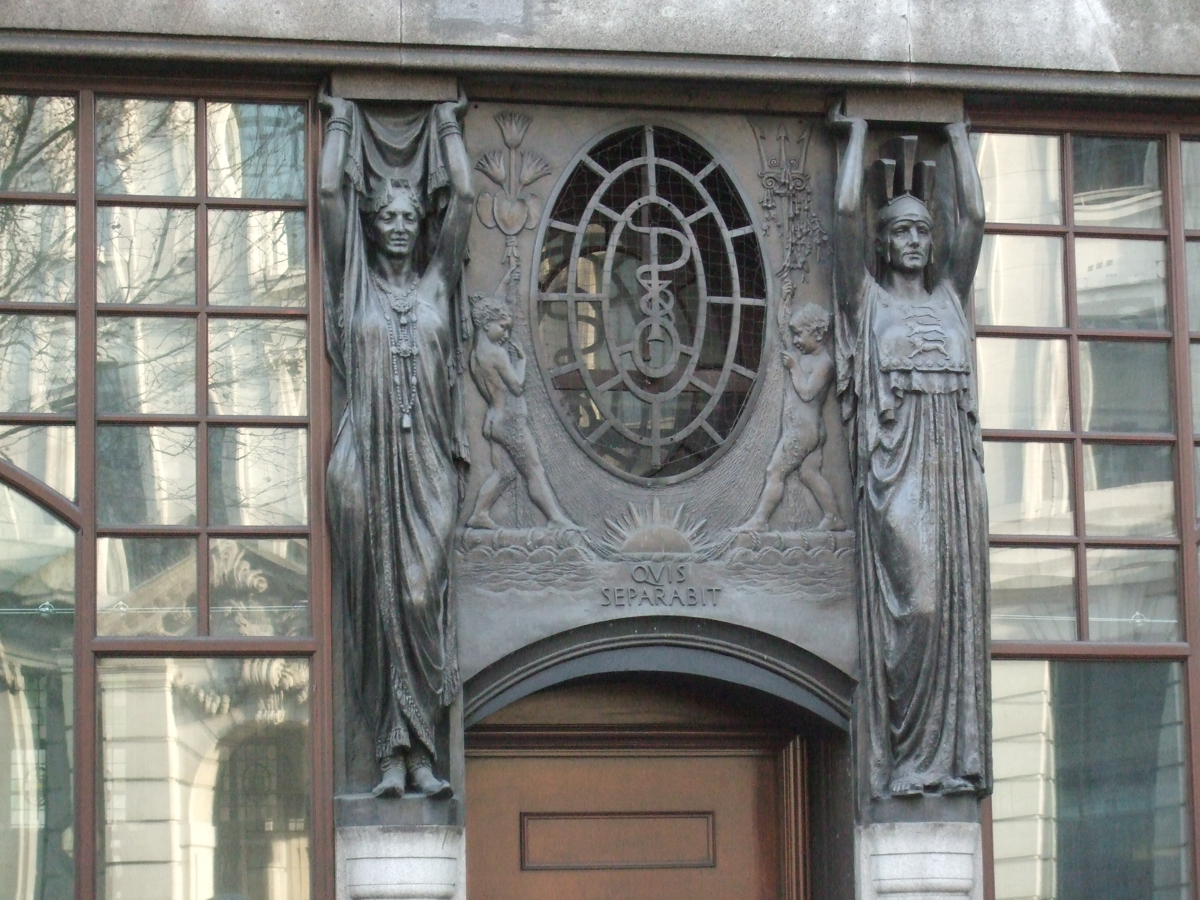 Art Nouveu exterior on former HQ of P and O Orient Lines shipping, now Brazillian Embassy, Cockspur Street, London